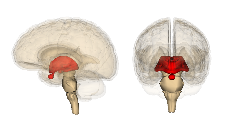 diencephalon. Images are from Anatomography maintained by Life Science Databases(LSDB).